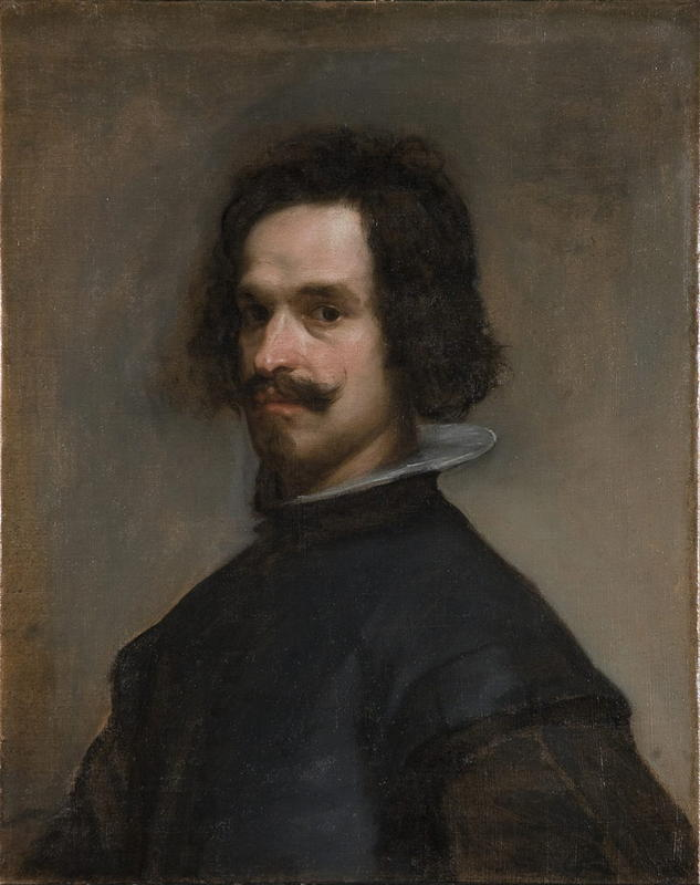 Portrait of a Man